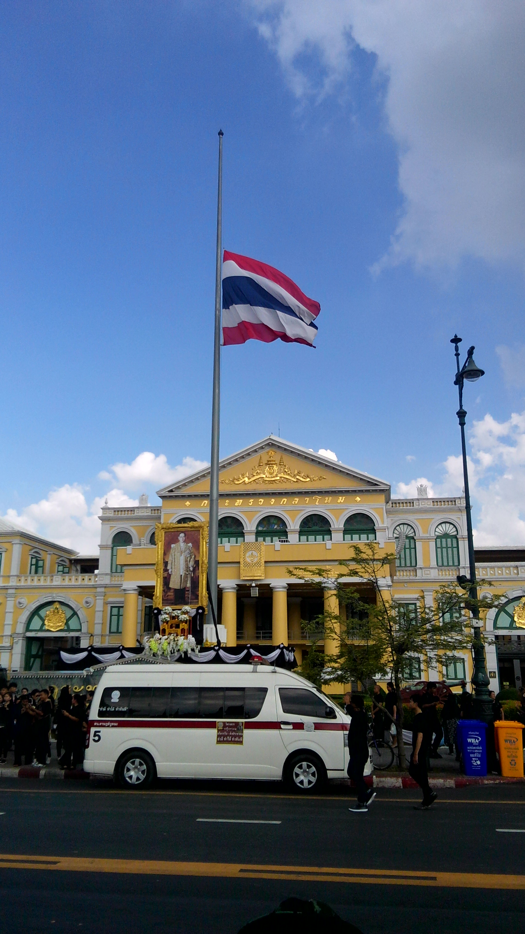 Half-staff for mourning to King Bhumibol Adulyadej at Ministry of Defence , Thailand.